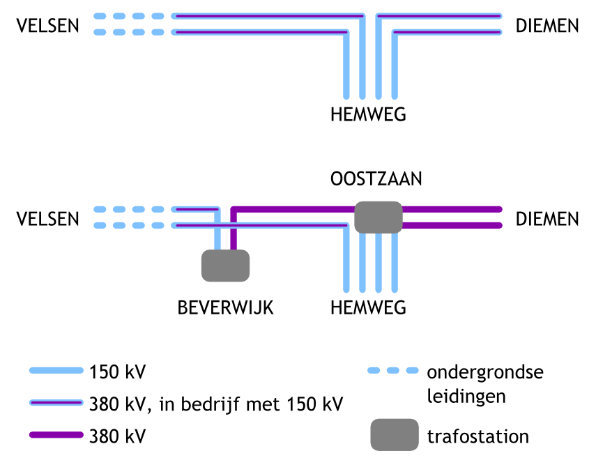 schematic drawing of the high voltage connections between Velsen, Hemweg and Diemen, in the Netherlands, before and after the installation of the substation Oostzaan